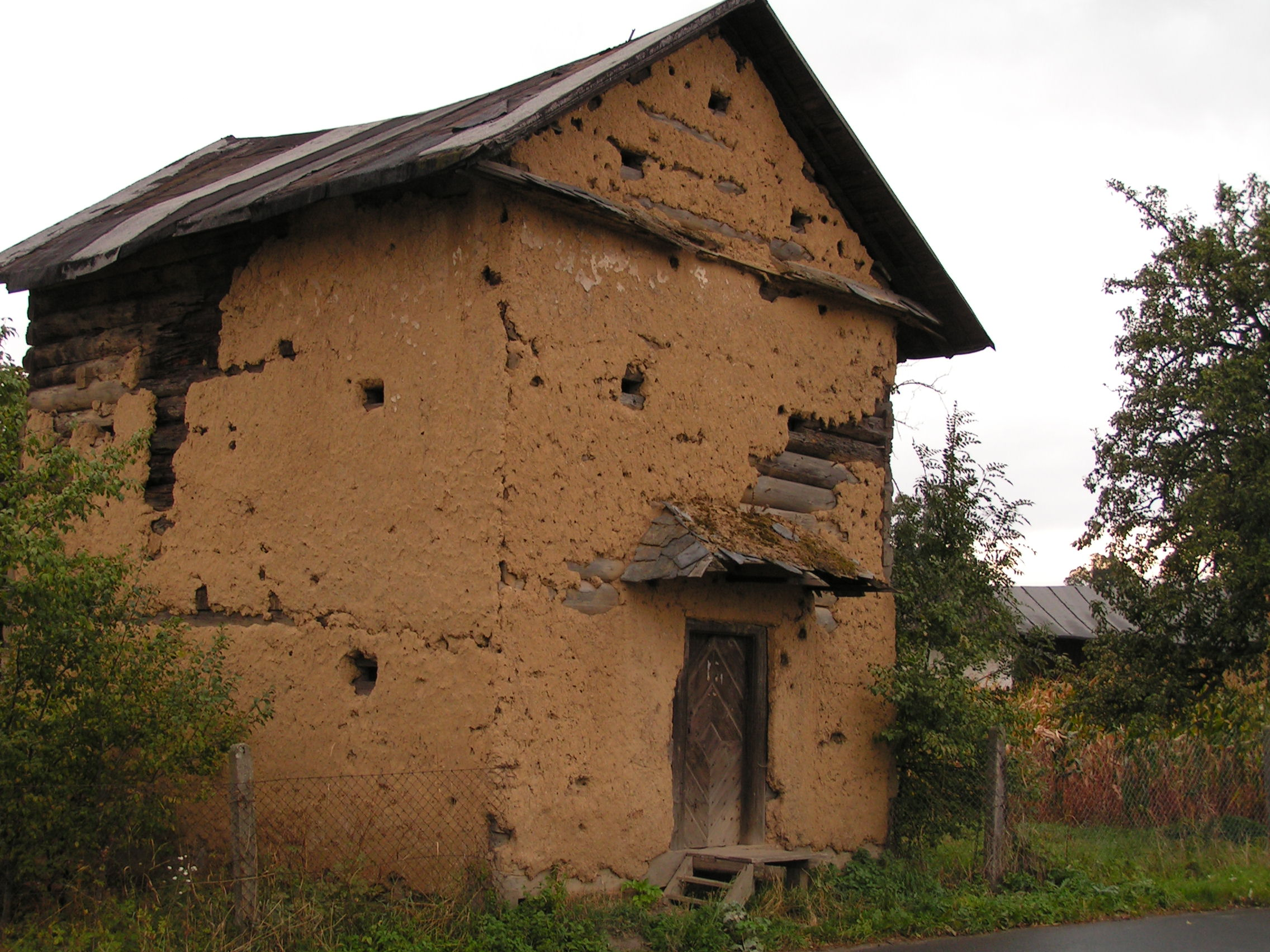 General view of the last surviving 'Laimes' in Rozumice (formerly Rösnitz)